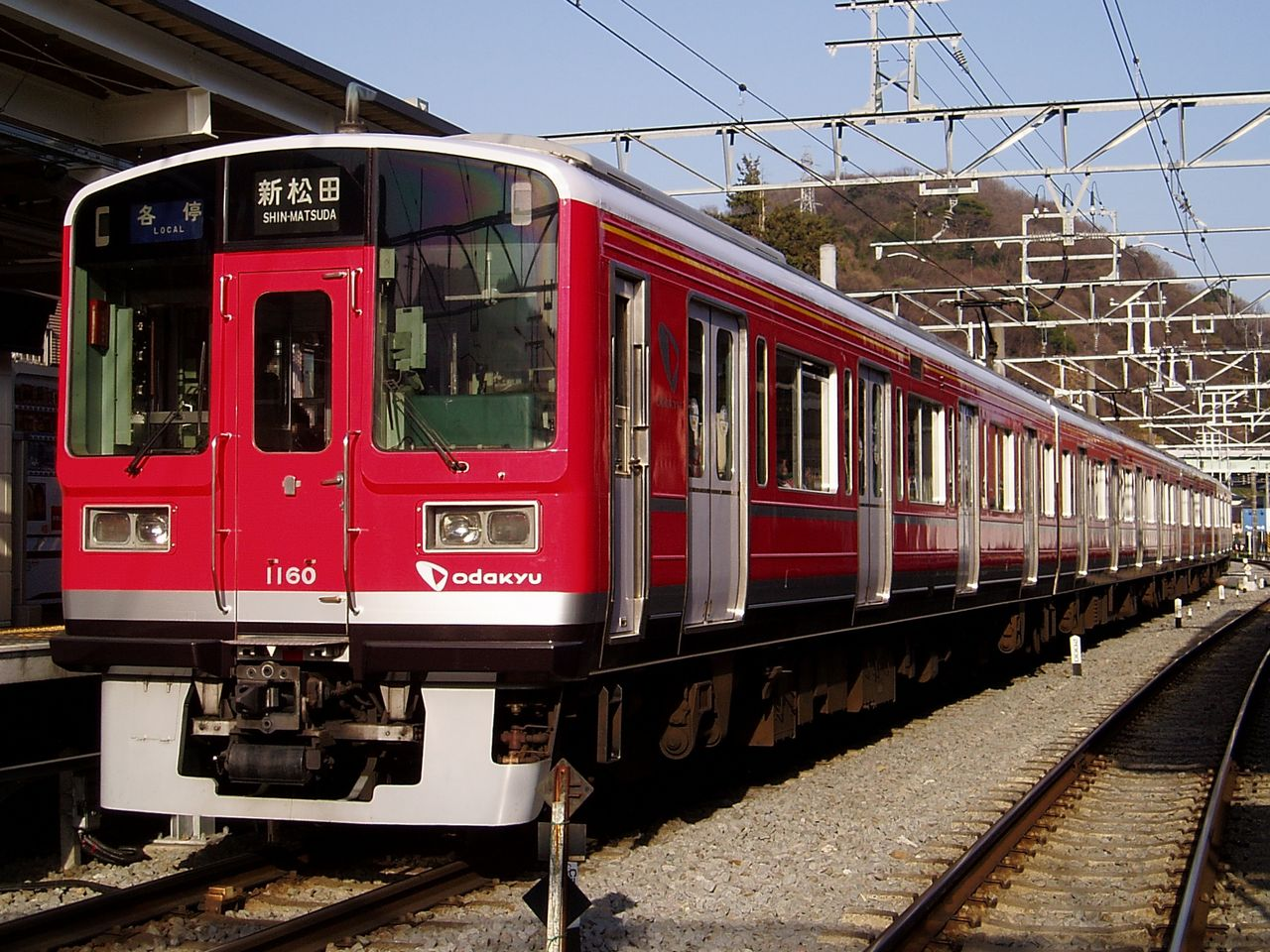 Odakyu Electric Railway 1000 series EMU set 1060 in Hakone Tozan Railway livery at Kazamatsuri Station